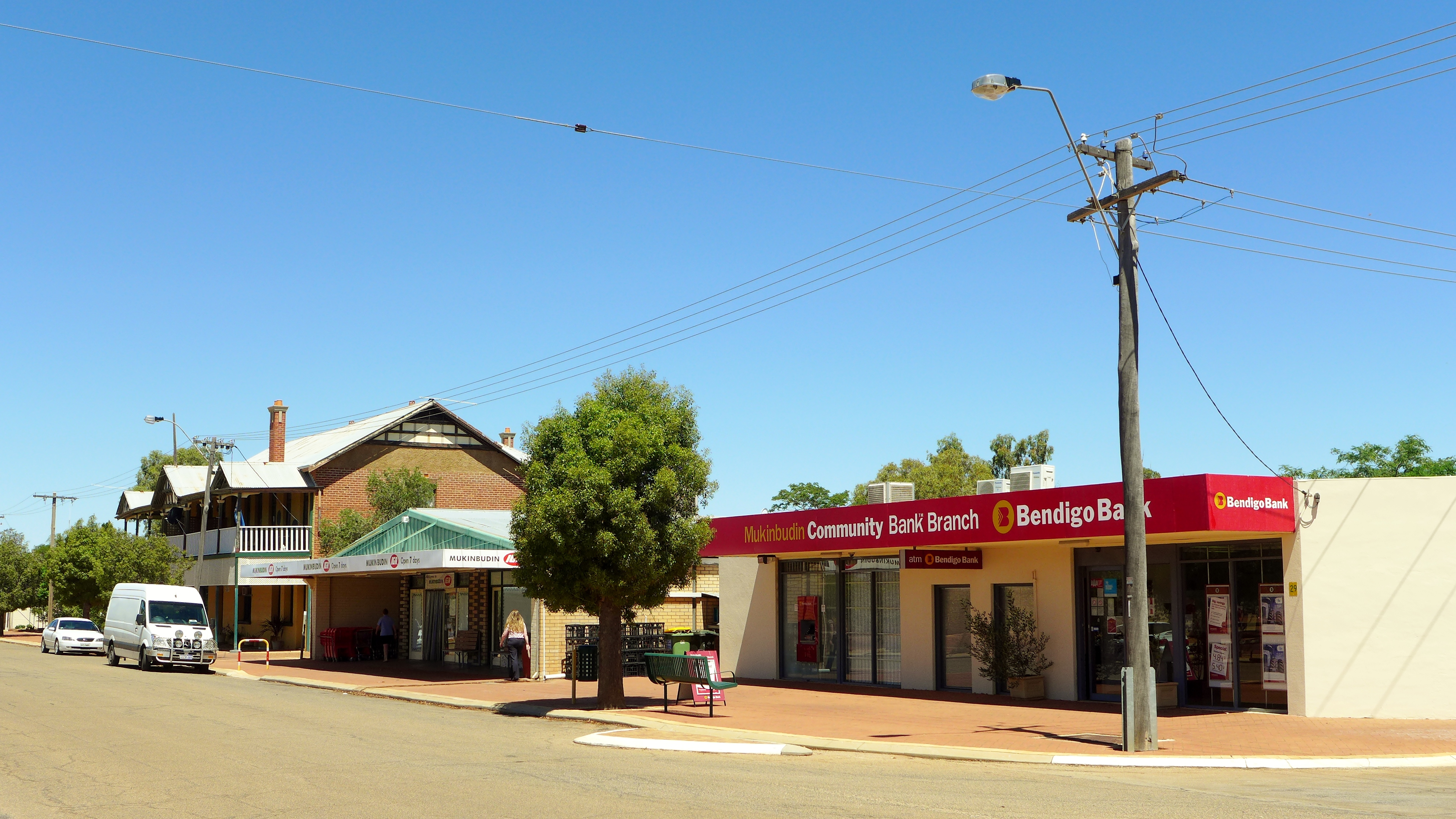 View of Shadbolt Street, Mukinbudin, Western Australia.